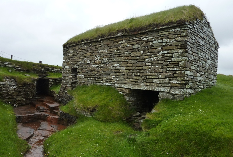 Click Mill, Dounby, Mainland, Orkneys, Scotland.